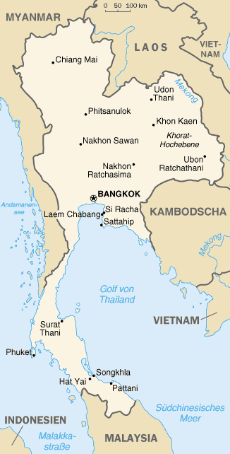 Map of Thailand